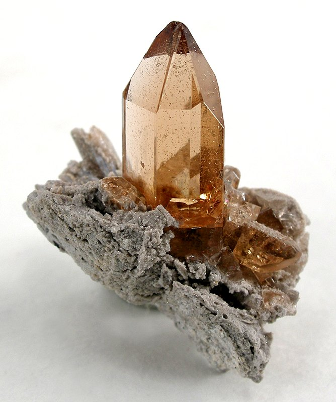 Topaz Locality: Maynard's Claim (Pismire Knolls), Thomas Range, Juab County, Utah, USA (Locality at ) Size: miniature, 3.7 x 2.8 x 2.5 cm Topaz What a gem! This gem-clear, absolutely gorgeous crystal is the perfect thumbnail ....a fat gem perched on a natural display pedestal. The crystal is perfect and complete all around save for a TINY ding on the back of the termination (see lower-right photo). Its there, but in context, it isn't distracting except on VERY close inspection and I think the piece is still in the top calibre level. These crystals Charlie had put away back in the 1960s after a good trade with dealer A.L. McGuiness GLOW with color and are, for combination of color and clarity, the finest I have seen for sale.